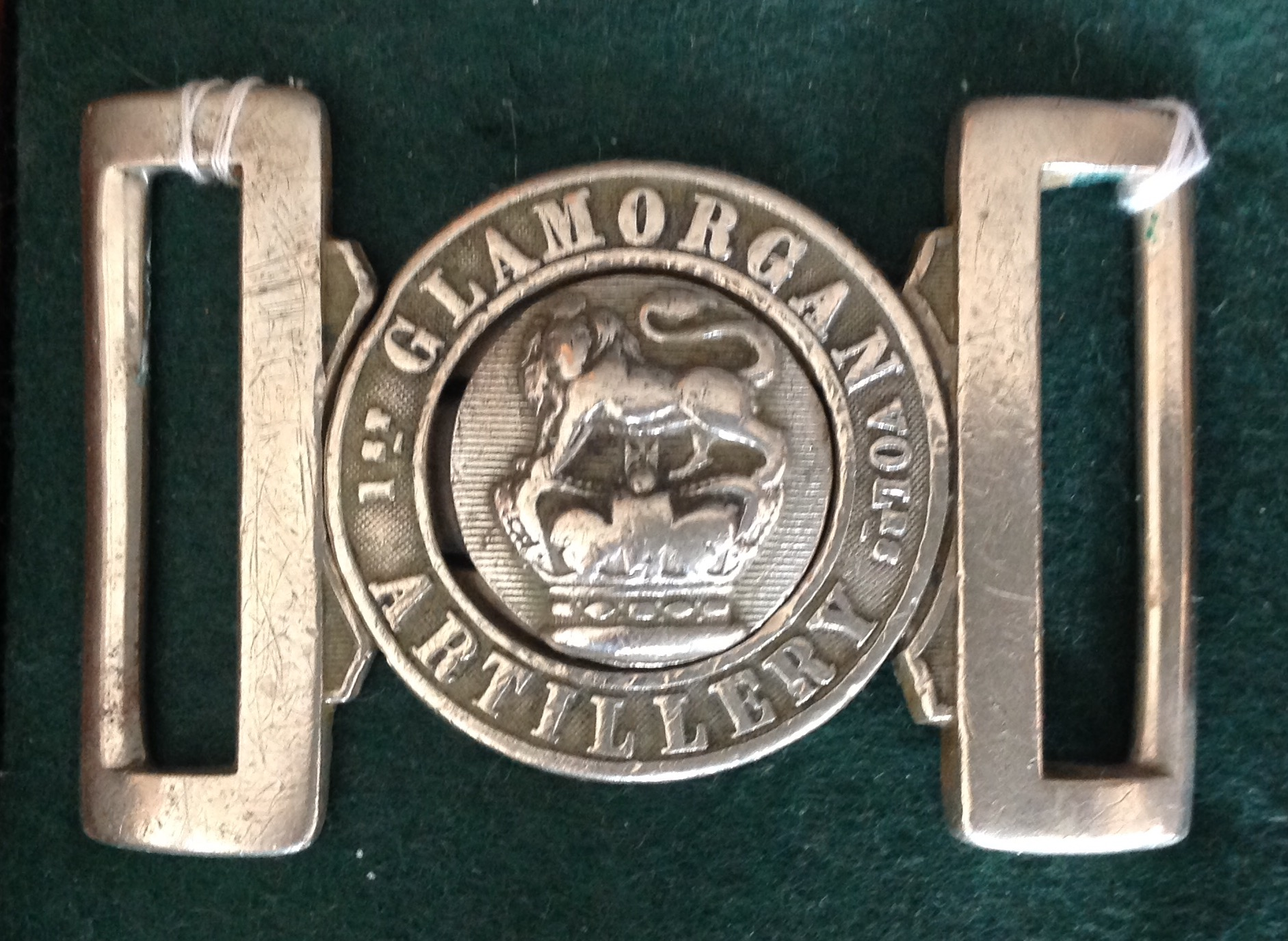 Other ranks waist belt clasp of the 1st Glamorgan Artillery Volunteers, c1890